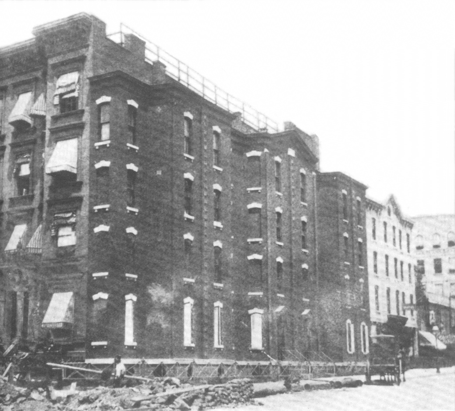 This is an 1895 photograph of the Richardson Spite House in New York City at Lexington Avenue and 82nd street. Built in 1882 and demolished in 1915, it was four stories tall, 104 feet (31.7 m) long, and only five feet (1.5 m) wide.